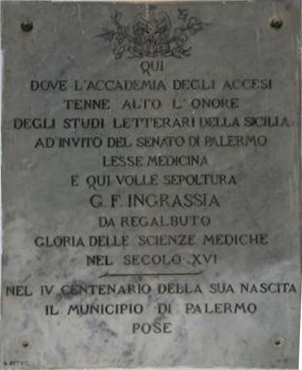 The commemorative gravestone of the Sicilian doctor Gian Filippo Ingrassia (with its inscription) inside Santa Barbara's chapel in the church of San Domenico in Palermo.